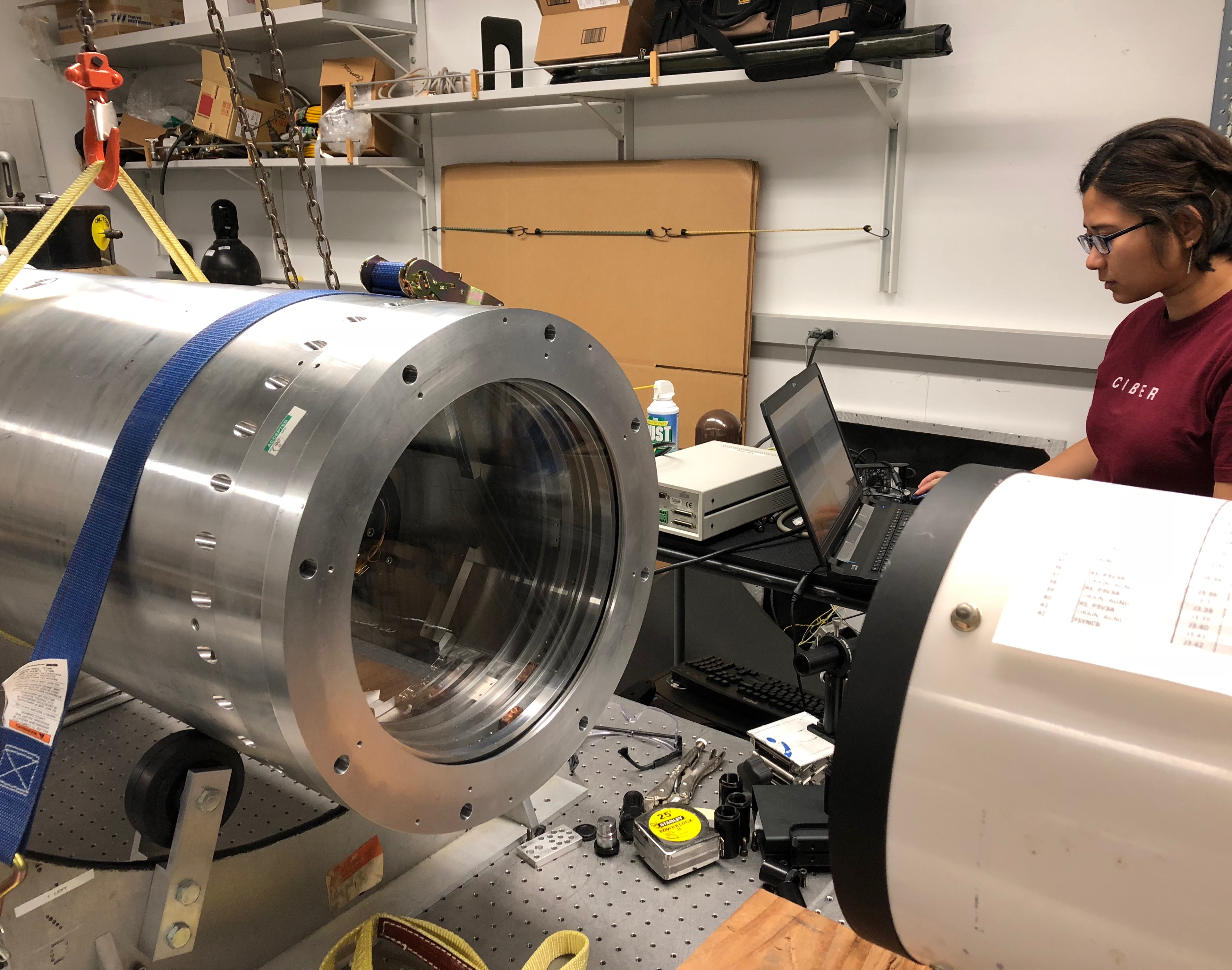 A CfD graduate student takes test images to characterize the CIBER-2 telescope as the payload (left) is being cooled down to 77K.